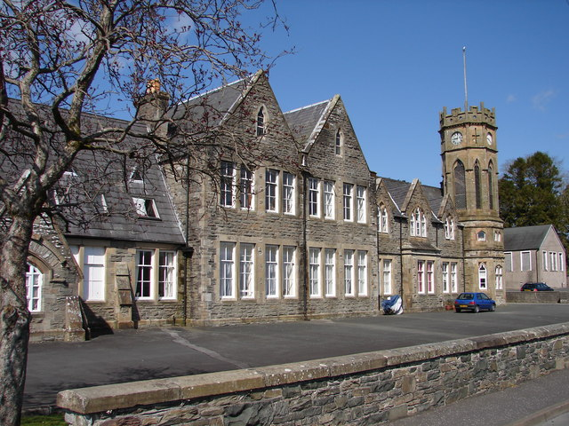 Ewart Institute Ewart Institute (1862-4): Built by Thomas Cook of Liverpool with octagonal tower (1869), a former school, now housing.